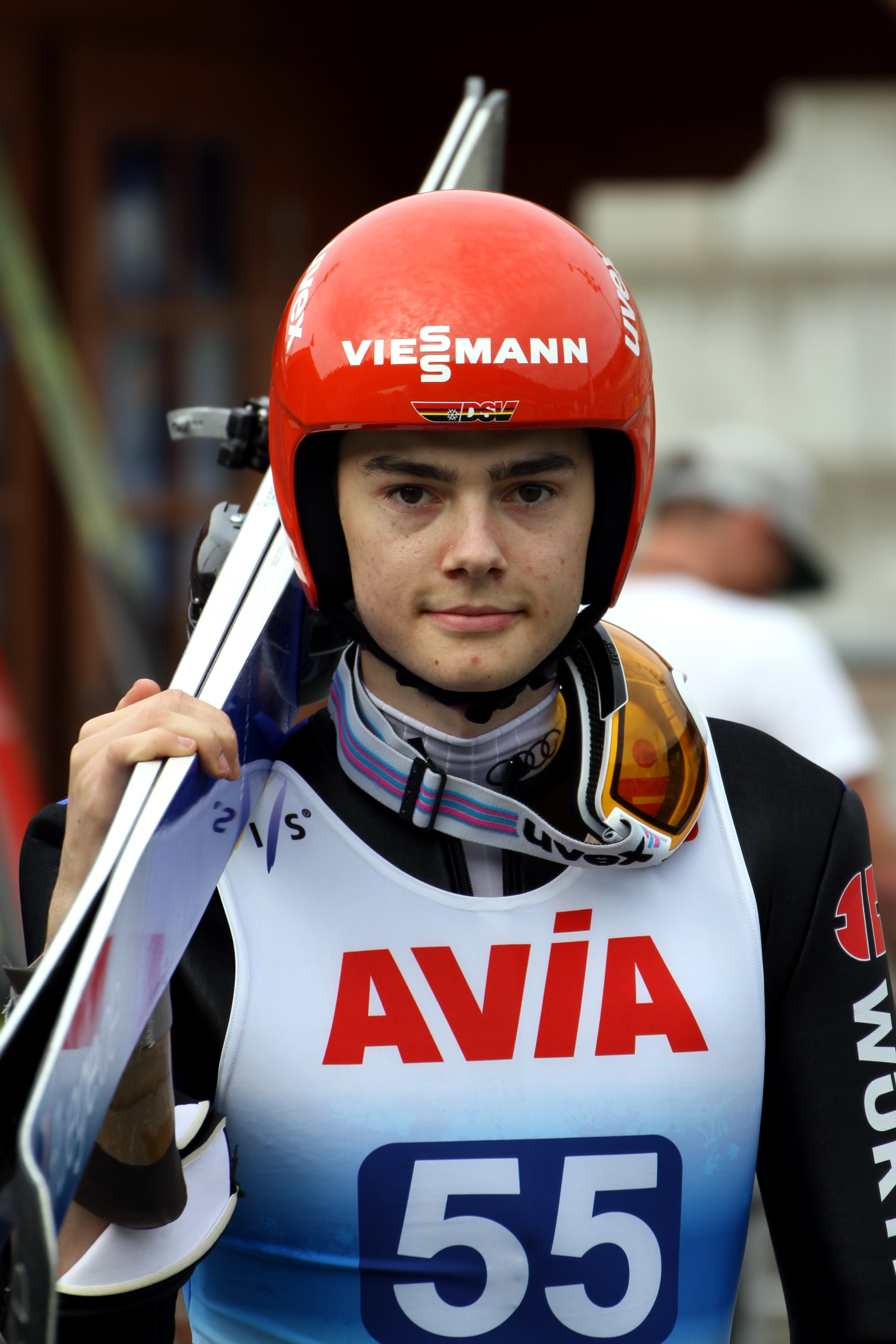 FIS Ski Jumping Summer Continental Cup Klingenthal 2017 David Siegel